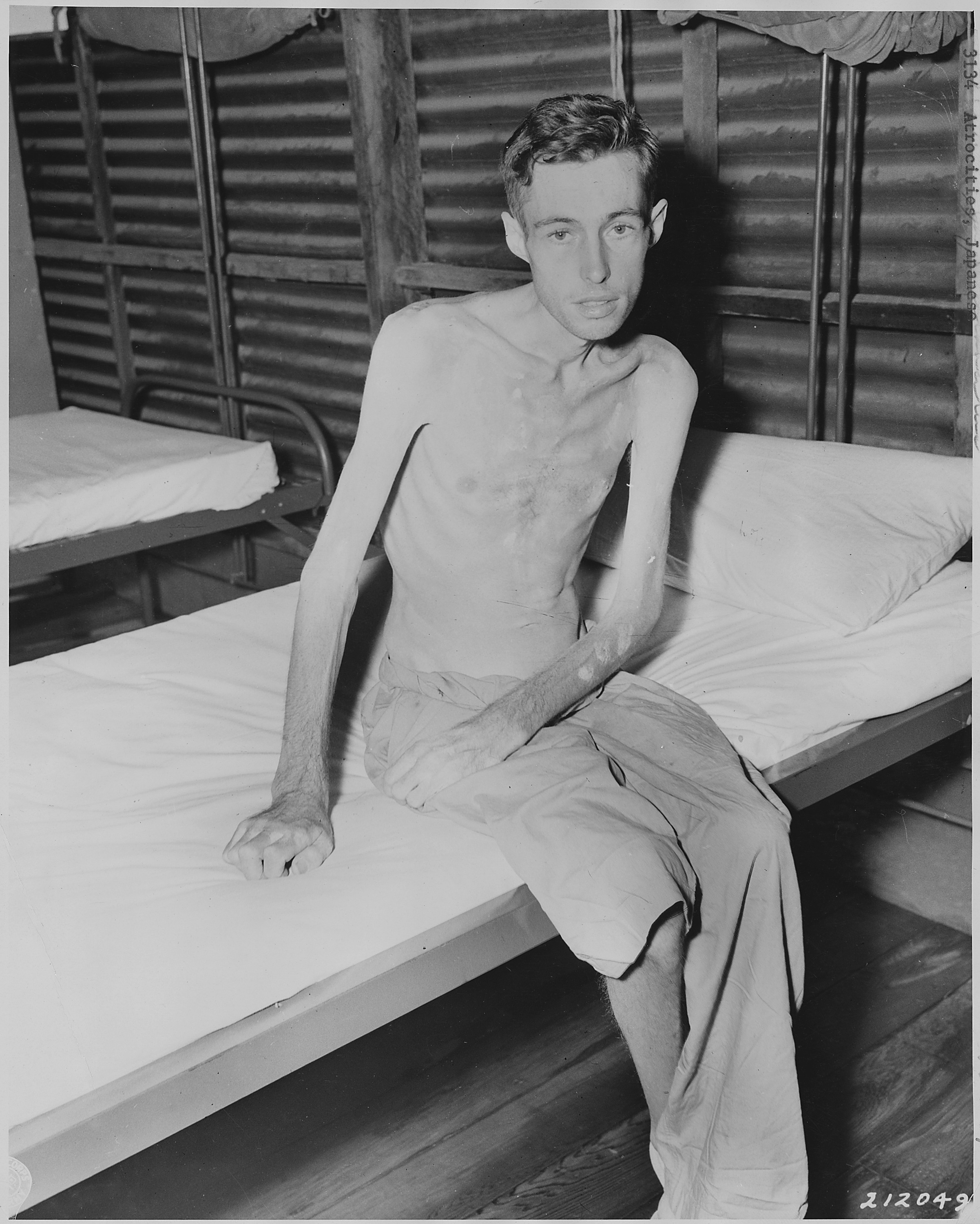 Scope and content: Cpl. Noel Havenborg is one of the many U.S. Army internee malnutrition cases at the General Hospital in Luzon, P.I. 9/21/45.